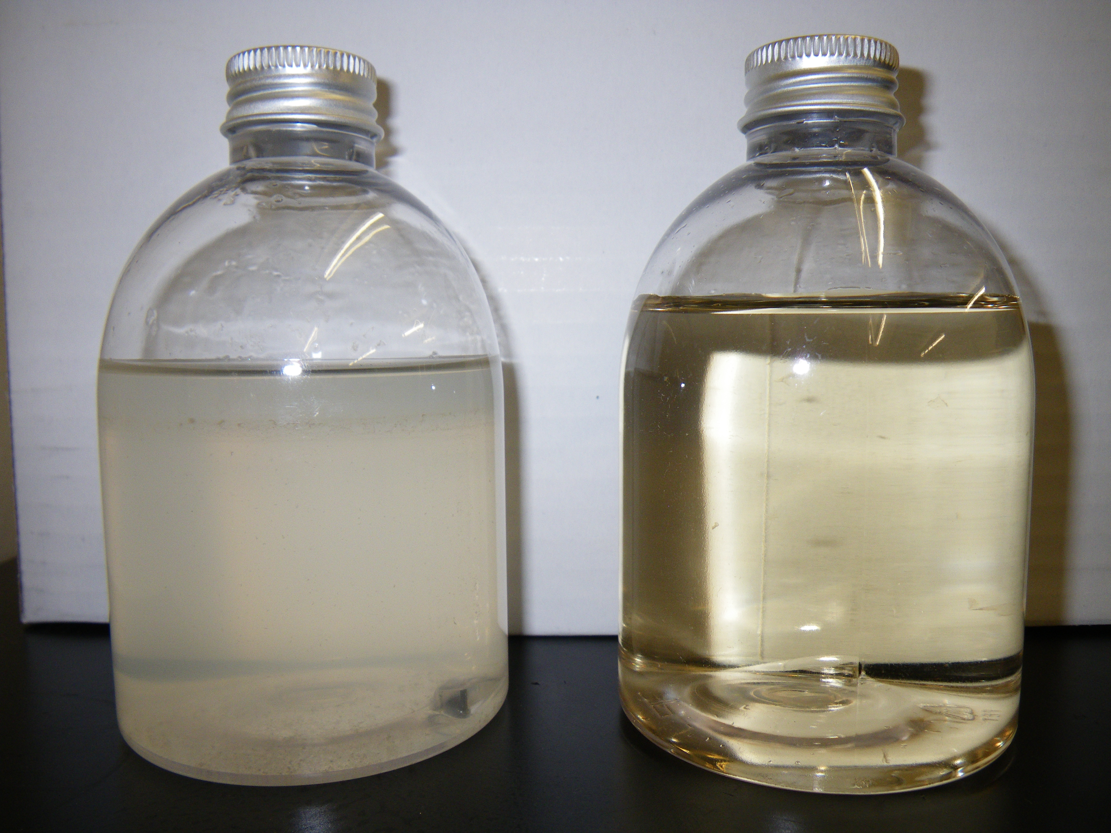 On the left side, there is a bottle of greywater from GIZ house 1. In comparison on the right side, there is a sample of purified water after MBR treatment. It is clear and has no visible residues. The light brown color is caused by humins.